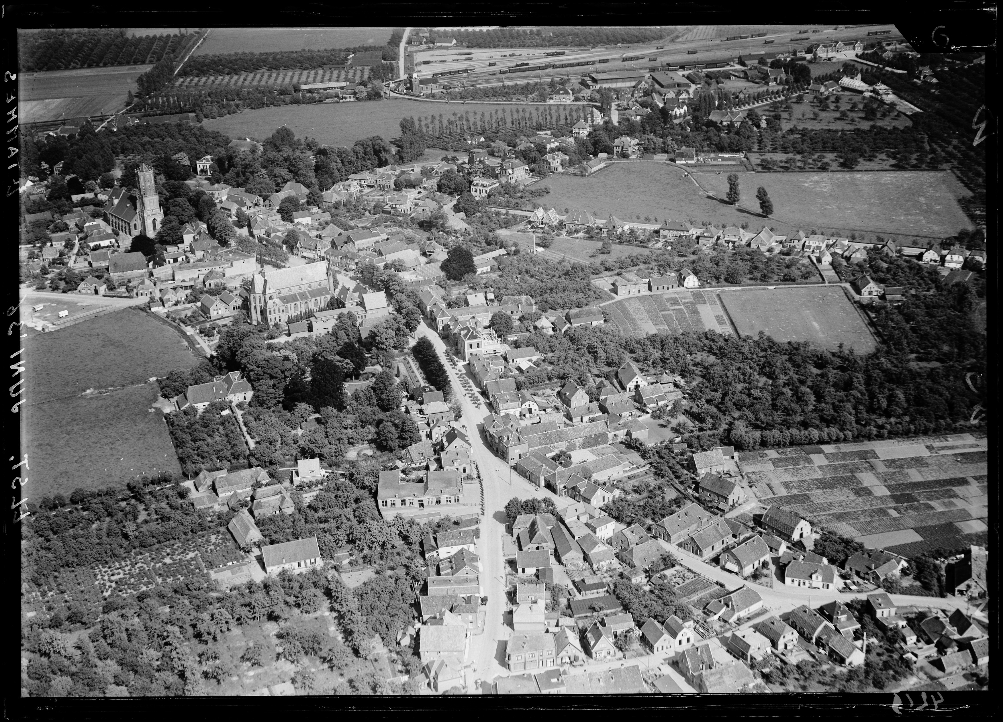 Aerial photograph of Elst, The Netherlands. Elst, Gelderland?